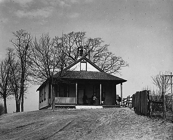 Amish schoolhouse in Lancaster County, Pennsylvania. 03/19/1941. Photographe by Irving Rusinow.